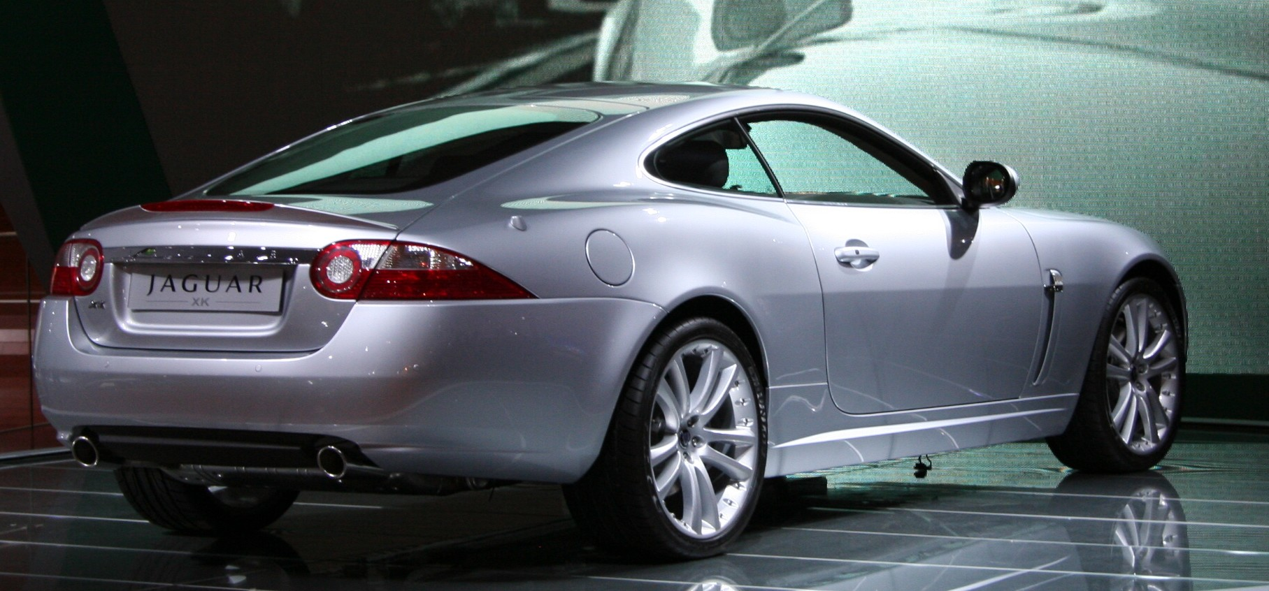 Jaguar XK on IAA 2005 (back view) Photo taken by Ygrek, 17th September 2005.